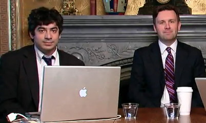 Depicts Arun Chaudhary and Deputy Press Secretary Josh Earnest Key people in the production of West Wing Week. A screen grab from Open for Questions: West Wing Week can be viewed at (